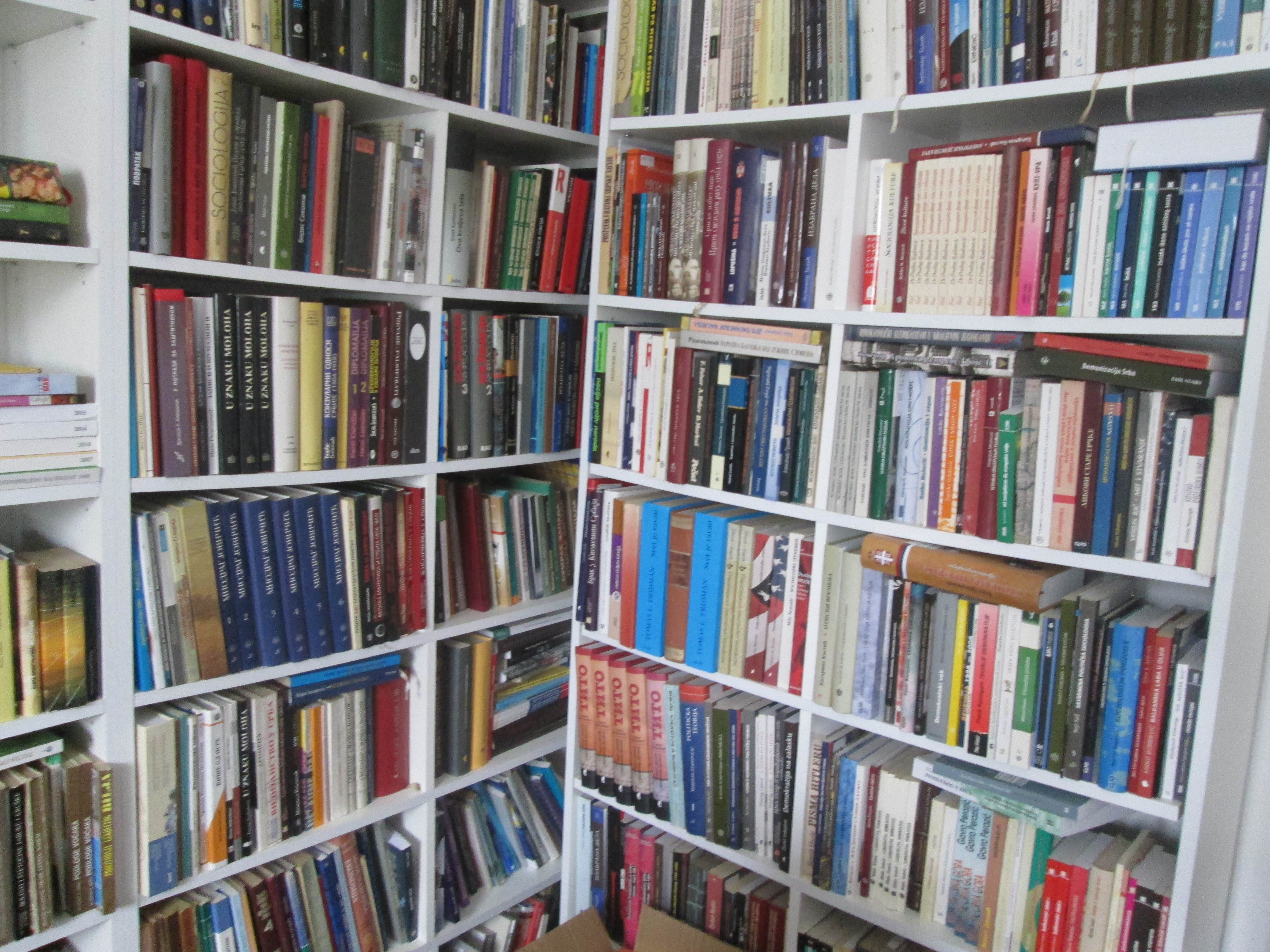 Library Srboljub Mitić - Malo Crniće